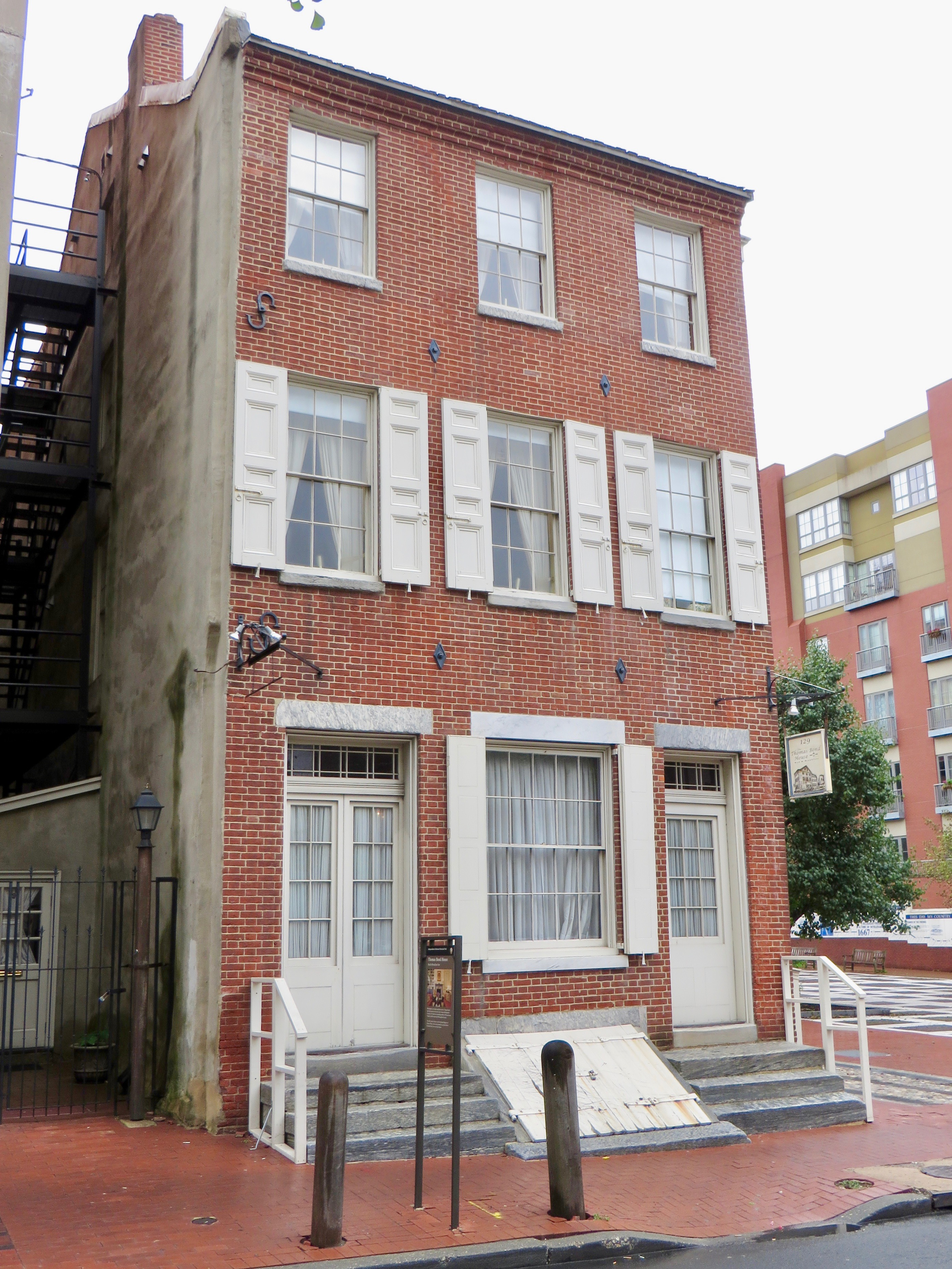 Thomas Bond House in or near the Independence National Historic Park, about 4 blocks east of Independence Hall in Philadelphia at 128 South 2nd Street.